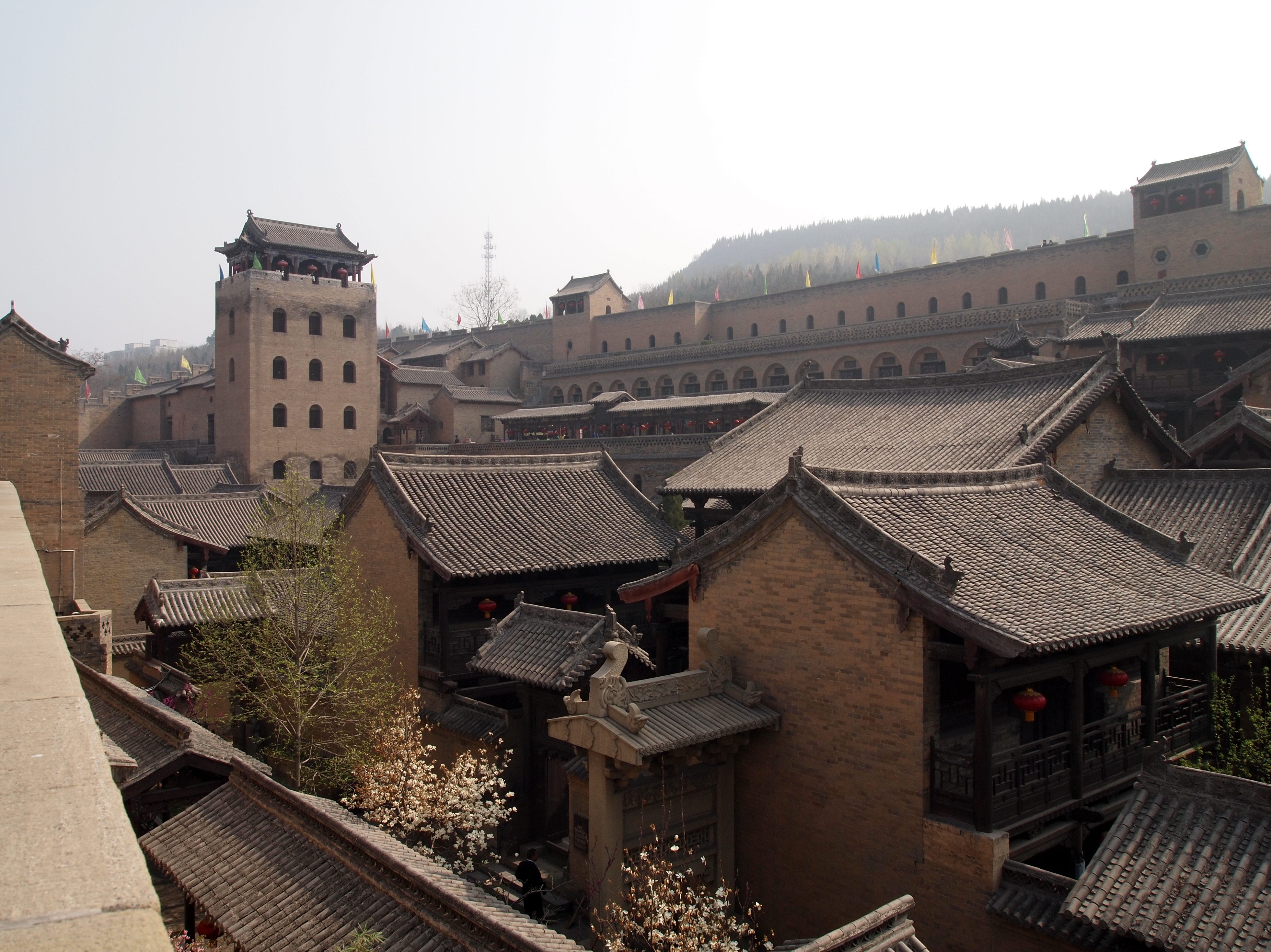 The Tower of Rivers and Mountains, overlooking the interior of the House of the Huangcheng Chancellor in Jincheng, Shanxi, China.